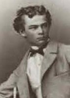 Max Emanuel in Bayern (1849-1893), Duke in Bavaria